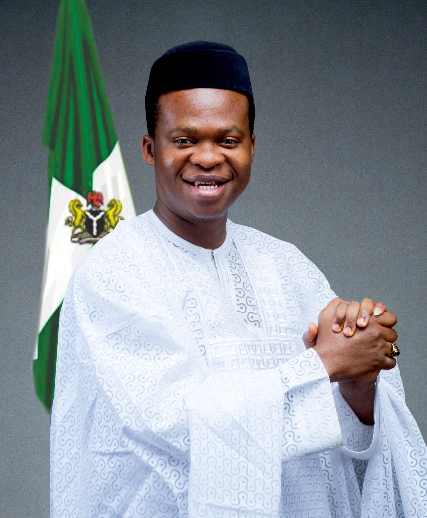 Emmanuel Etim Wikipedia Portrait